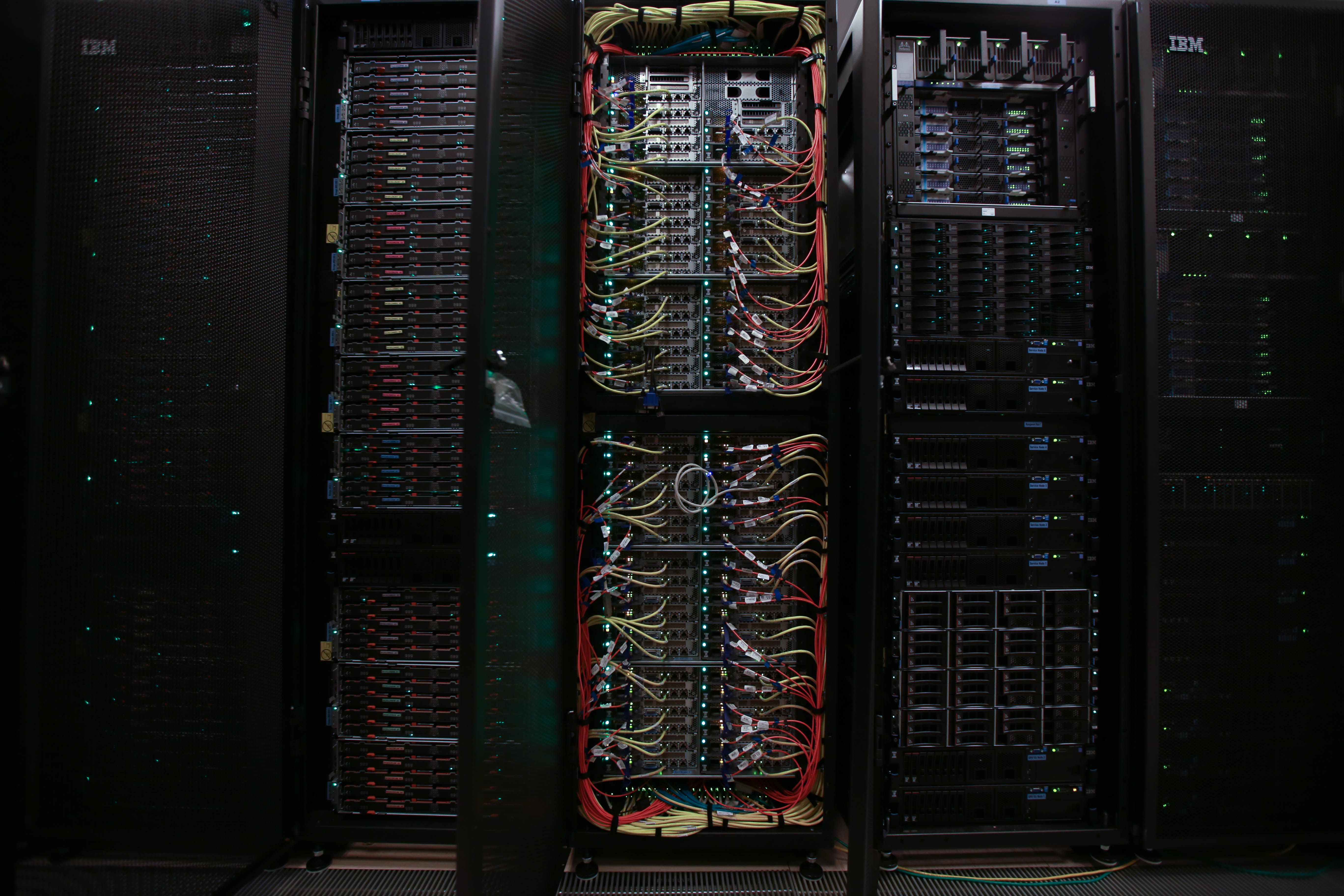 Rack od supercomputer Pico in Cineca